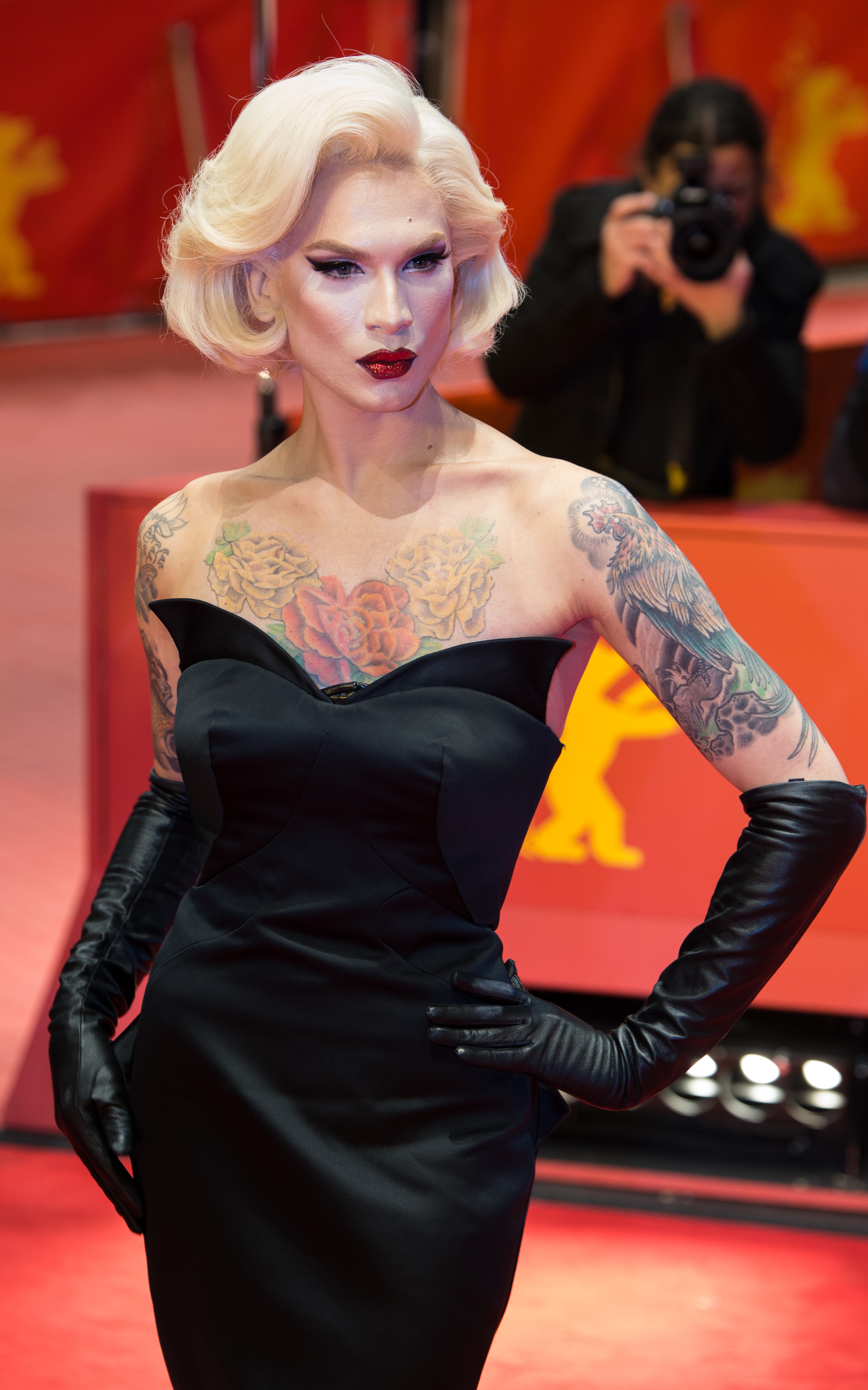 Miss Fame at the opening night of the movie T2 Trainspotting at the Berlinale 2017